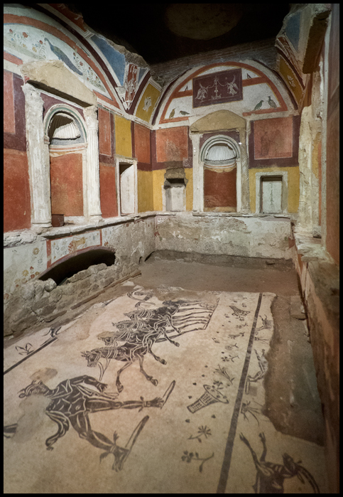 Interior of a Roman tomb a few meters away from the site of (alleged) St Peter's tomb.